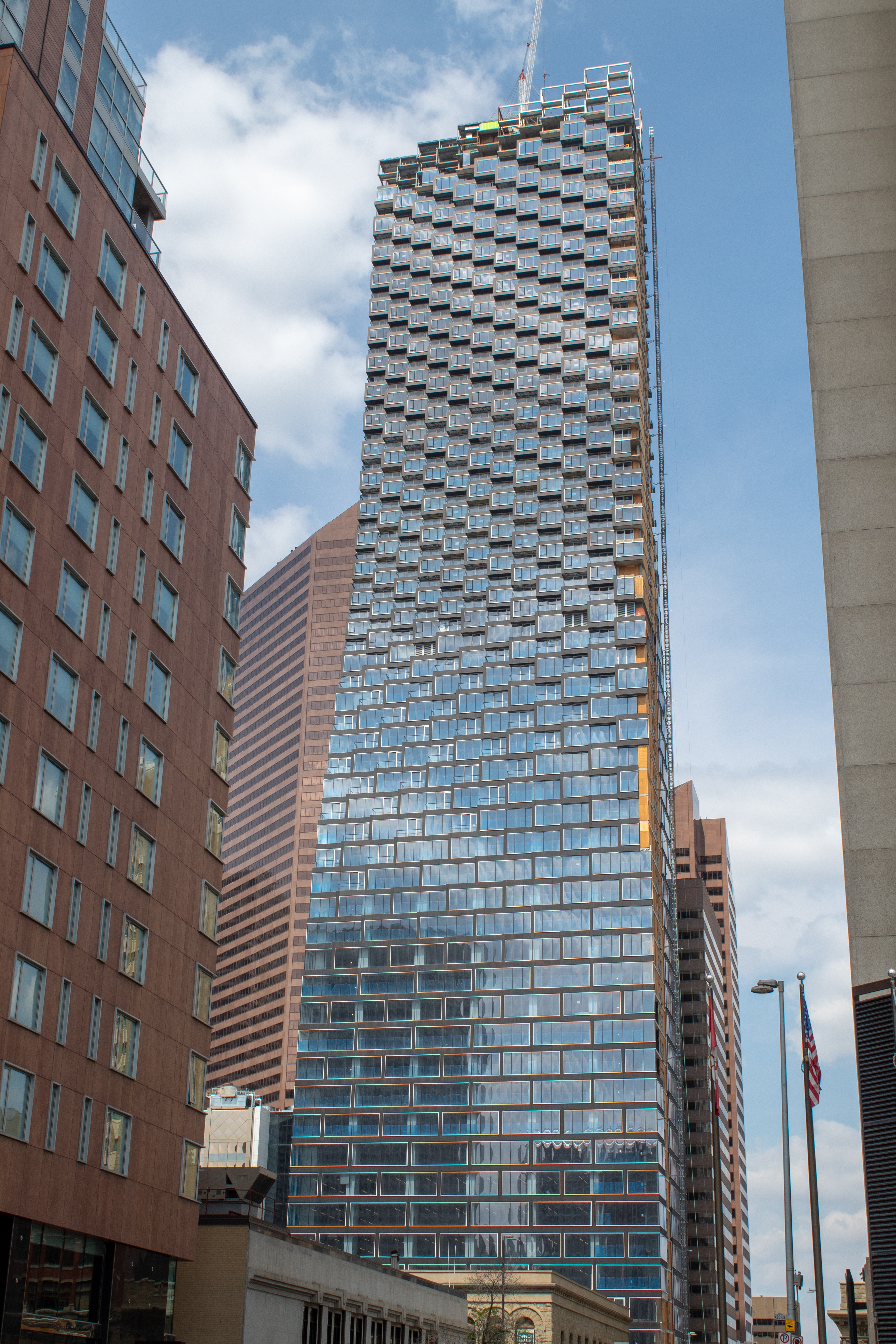 Telus Sky building in Calgary, Alberta, nearing completion.